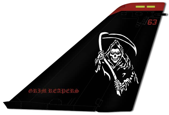 The tail of a US Navy F-14D Tomcat, belonging to VF-101, the "Grim Reapers". Original created in Adobe Photoshop by Erik Hess in 2004.